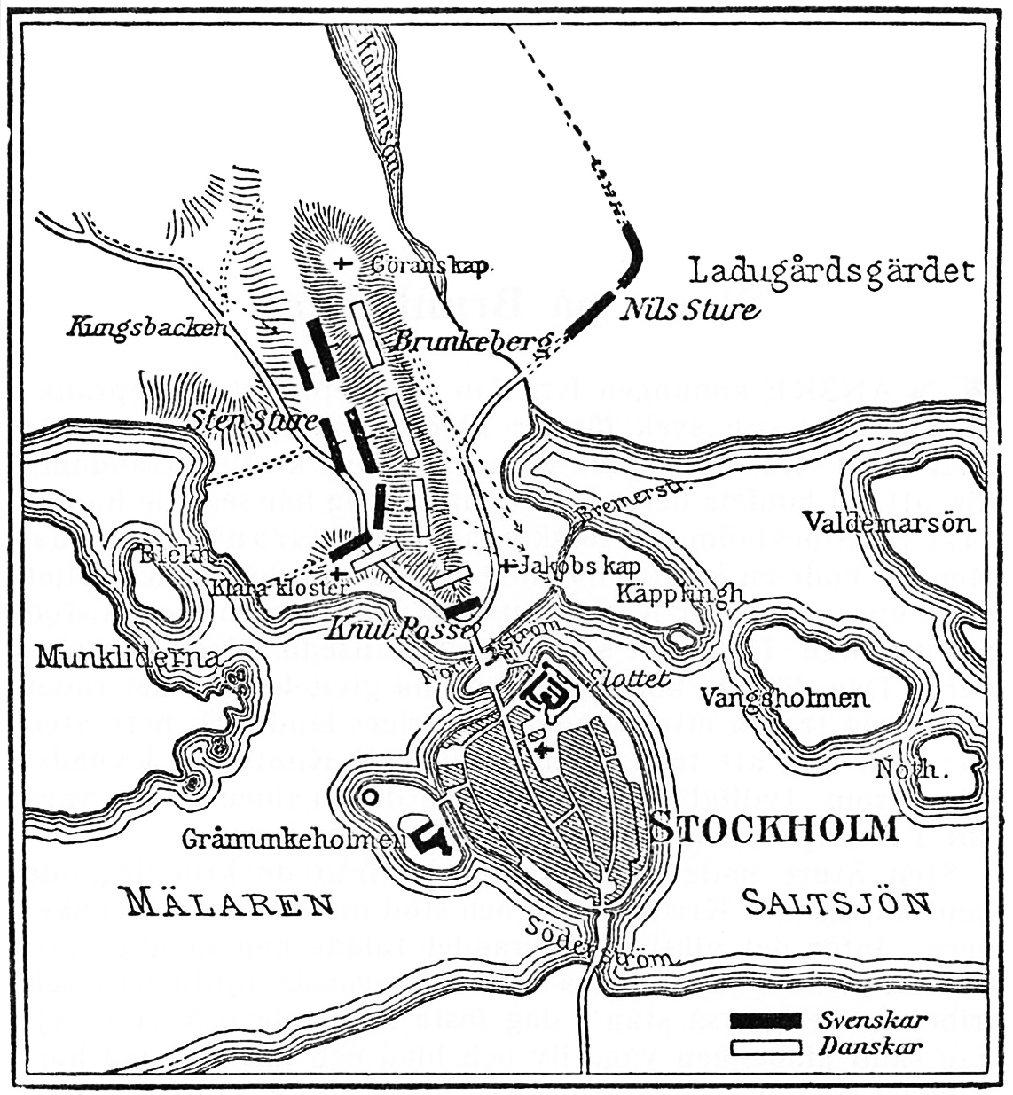 Swedish map about the battle at Brunkeberg (10th of October 1471, between Swedish leader Nils Sture and Danish king Christian I.)